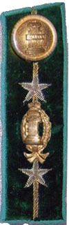 Russian Empire; rank insignia of the civil administration, here collar tap as to the design of 1904: «Ministry of Justice» «Government secretary» (ru: gubernsky sekretar) (Rank)class in line to the table of ranks = K12, comparable to Second lieutenant (NATO OF-1b).